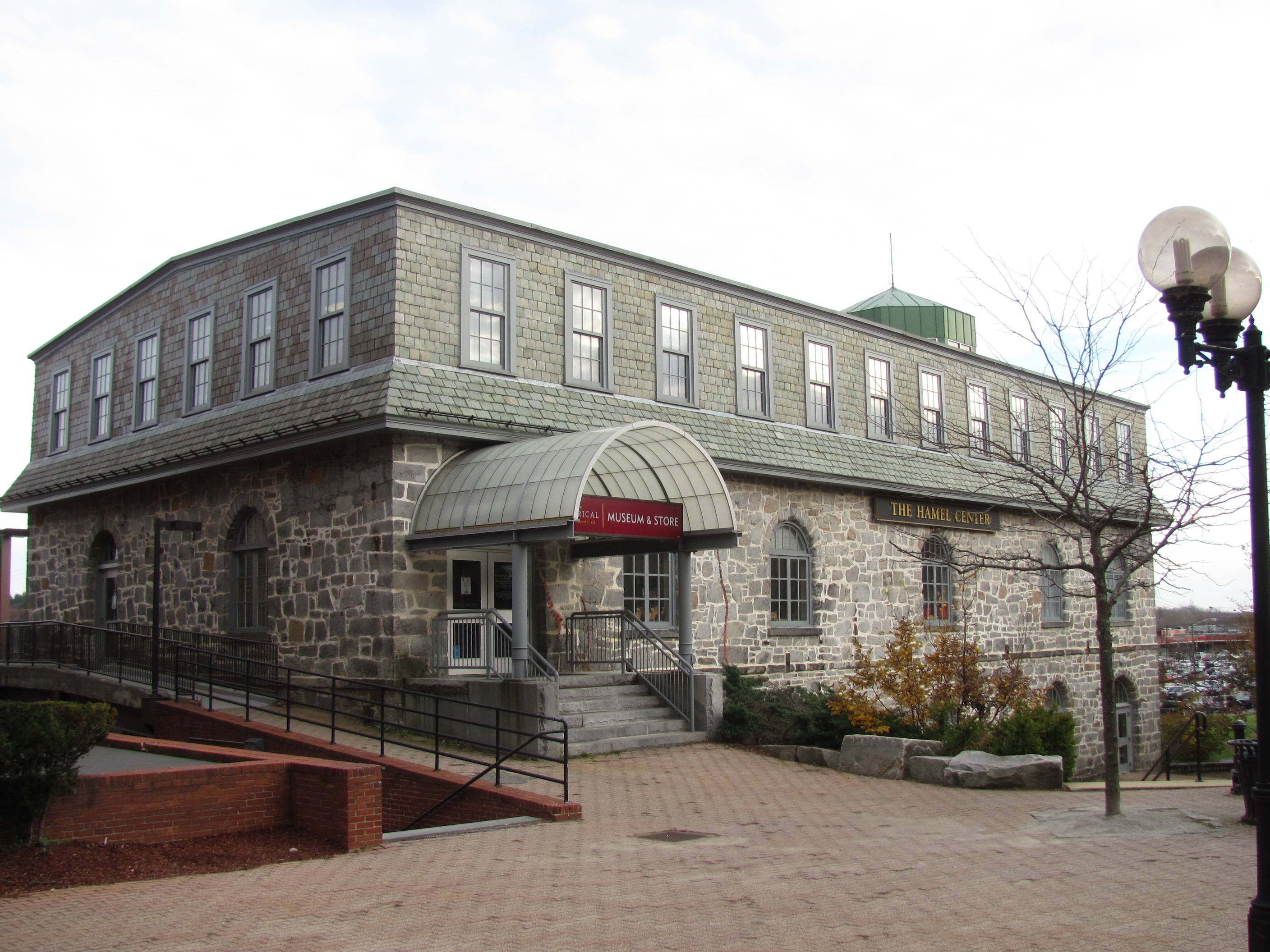 New Hampshire Historical Society Museum and Store, Concord New Hampshire